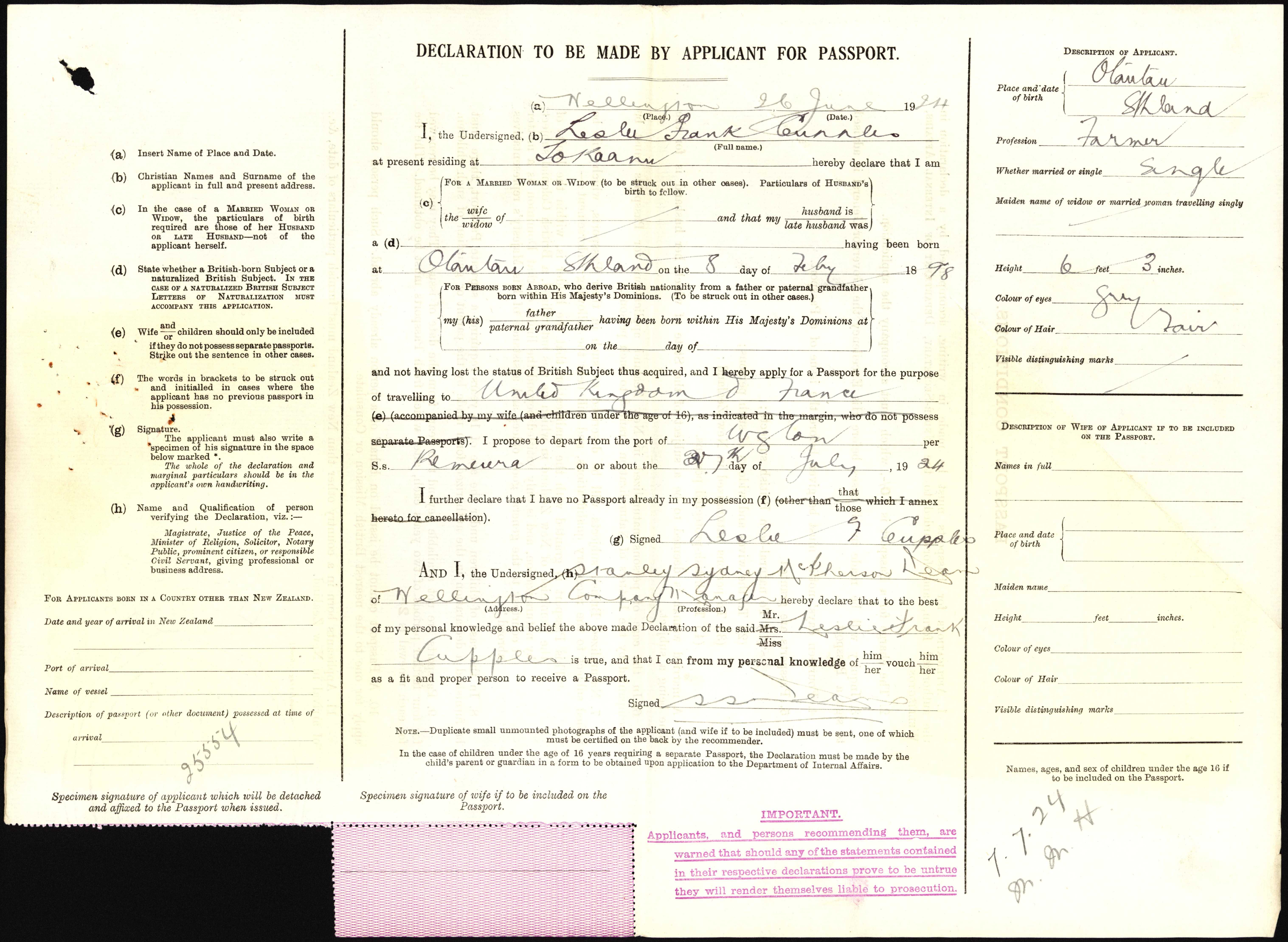 ACGO 8333 IA1 1349 / 15/11/17721 Leslie Frank Cupples passport application (1924)